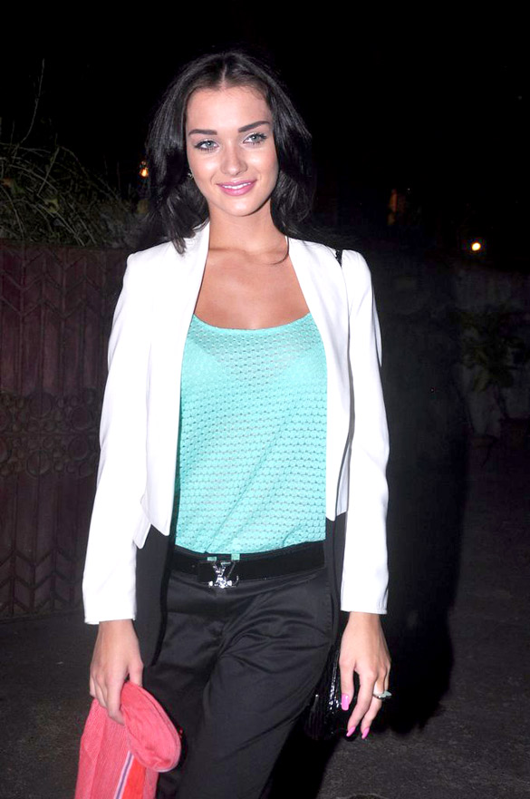 Amy Jackson at 'Gangs Of Wasseypur' screening